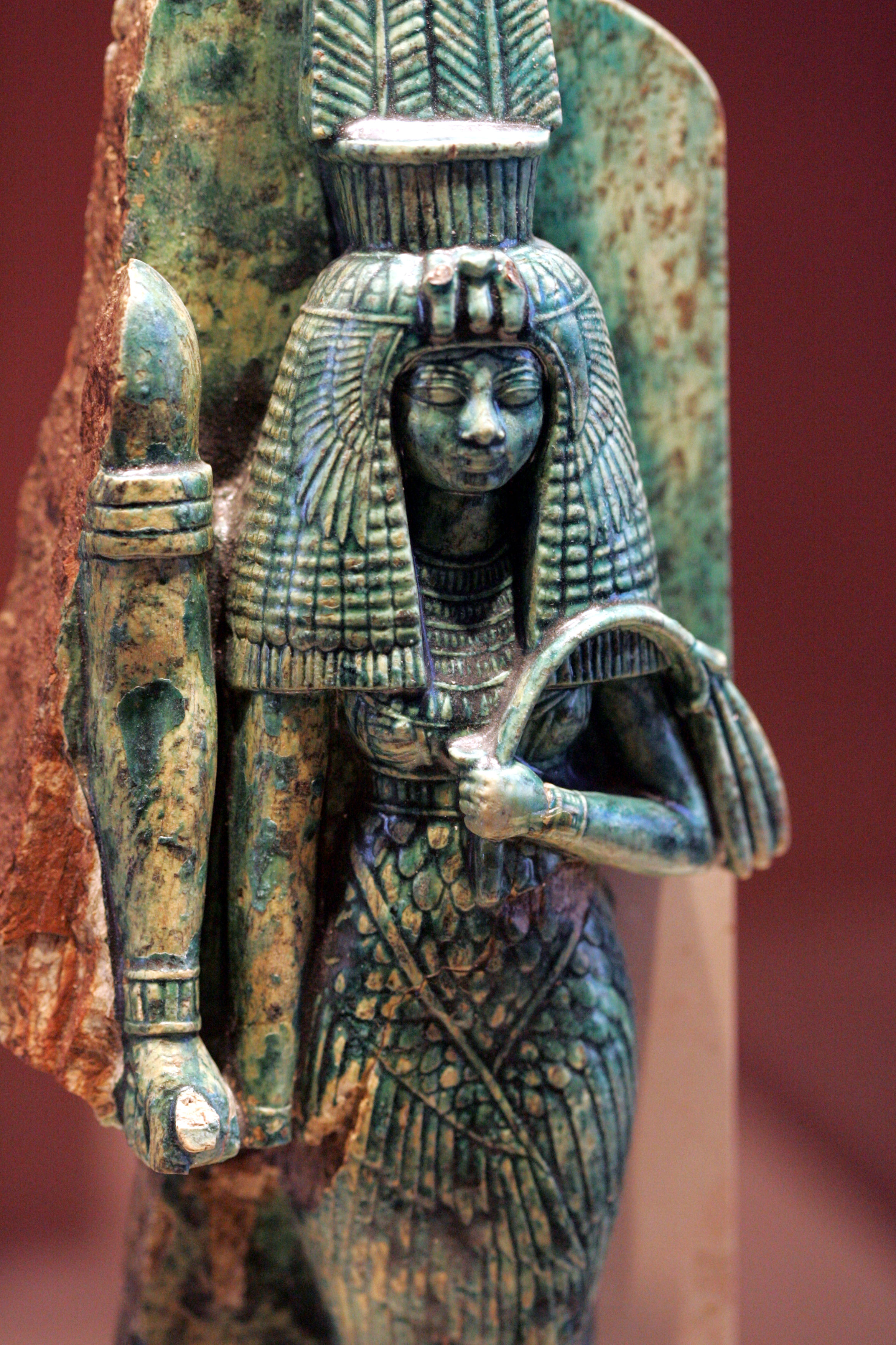 Fragmentary statite statue of Queen Tiye.